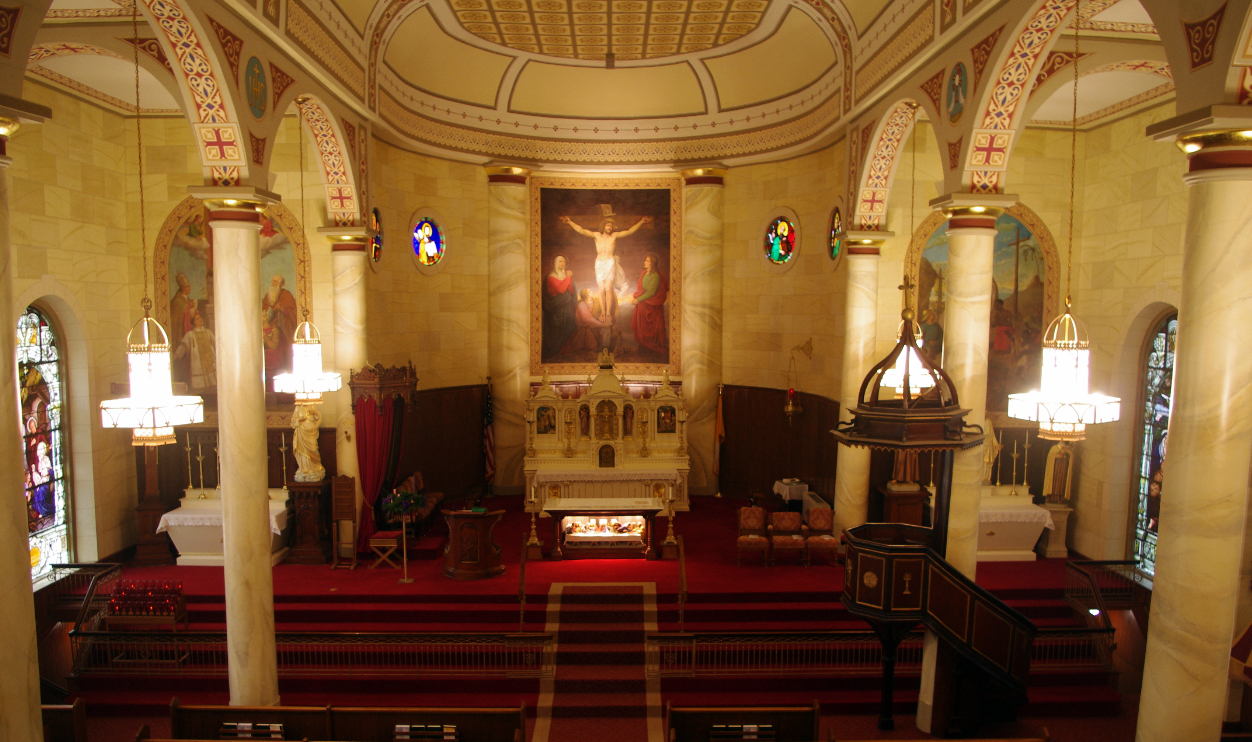 St. Francis Xavier Basilica (Vincennes, IN) - interior, view of nave from the organ loft